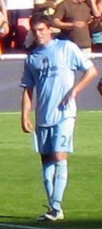 Spanish football (soccer) player Javier Garrido